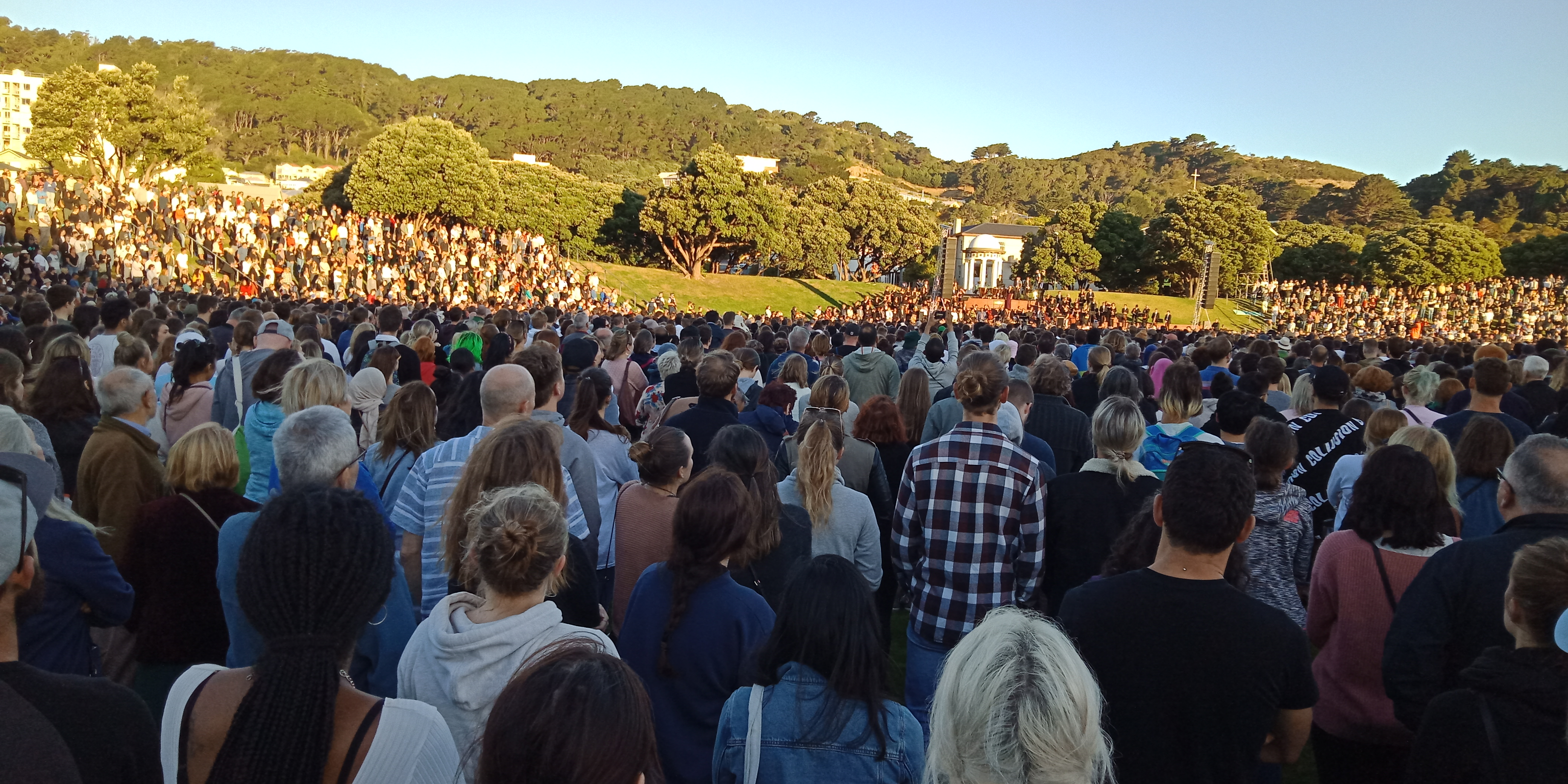 In the evening on 17 March 2019, over 11,000 people in Wellington, Aotearoa New Zealand, gathered in the Basin Reserve for a vigil for the victims of the terrorist attack on mosques in Christchurch on Friday, 15 March 2019. This photo was taken at the end of the vigil when everyone was standing.